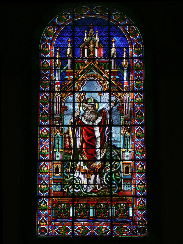 Basilica-Cathedral of St. John the Baptist, St. John's, Avalon Peninsula, Newfoundland, Canada. Window by Louis Koch, "St Patrick"